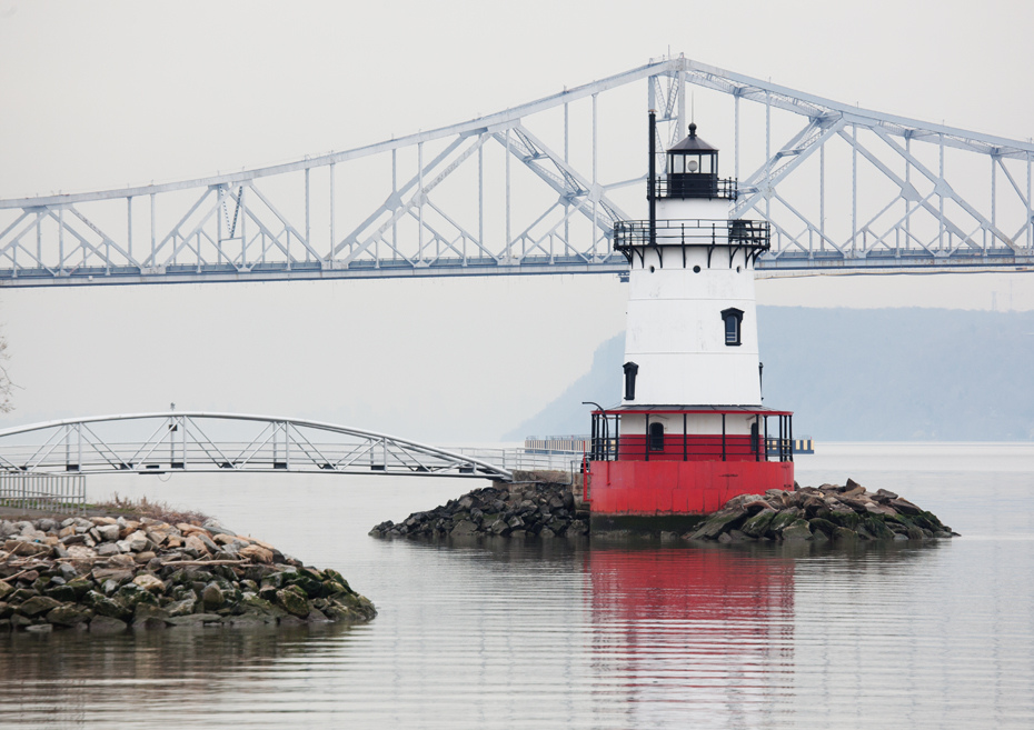 Tarrytown Lighthouse